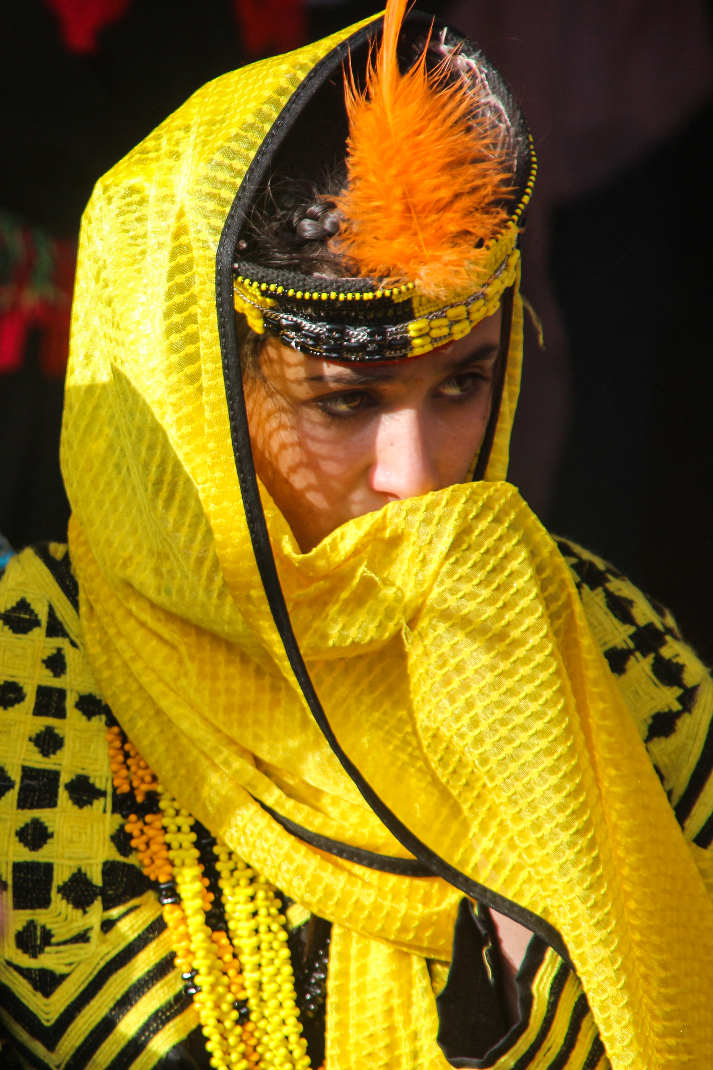 Kalashi Girl Attending Chillam Joshi Festival in Kalash Valley, Bumburet, Pakistan.